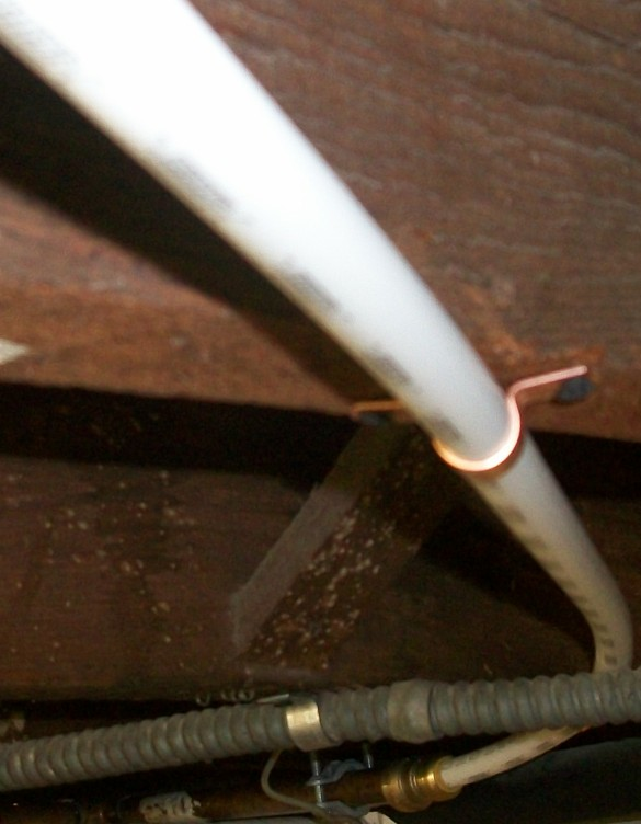 PEX piping (white) can bend flexibly without requiring lots of connection fittings, such as this basement hookup to connect an exterior house faucet with a water supply. PEX can't make a sharp 90-degree turn, but softer turns are enabled without using elbow joints.